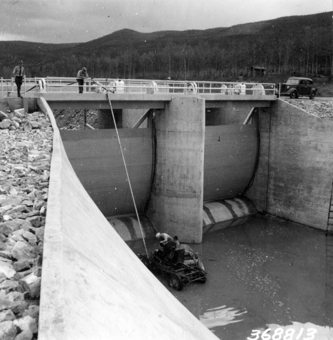 Moon Lake Dam was built in the 1930s. It was inspected in April of 1938 and filled to capacity by June of that year. These photos show the inspection of Moon Lake Dam.